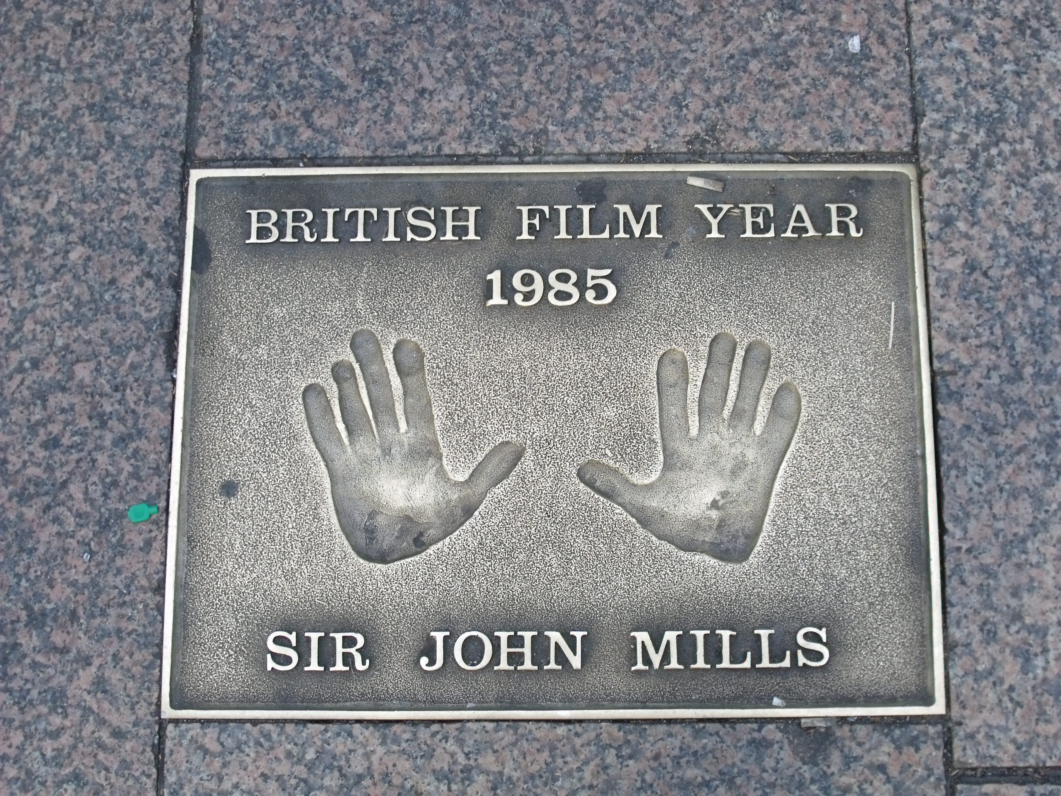 The area of London where UK film premieres take place. With loads of cinemas. Various hand prints in Leicester Square of various film stars. These ones were done in 1985 during the British Film Year 1985. Handprints of Sir John Mills.